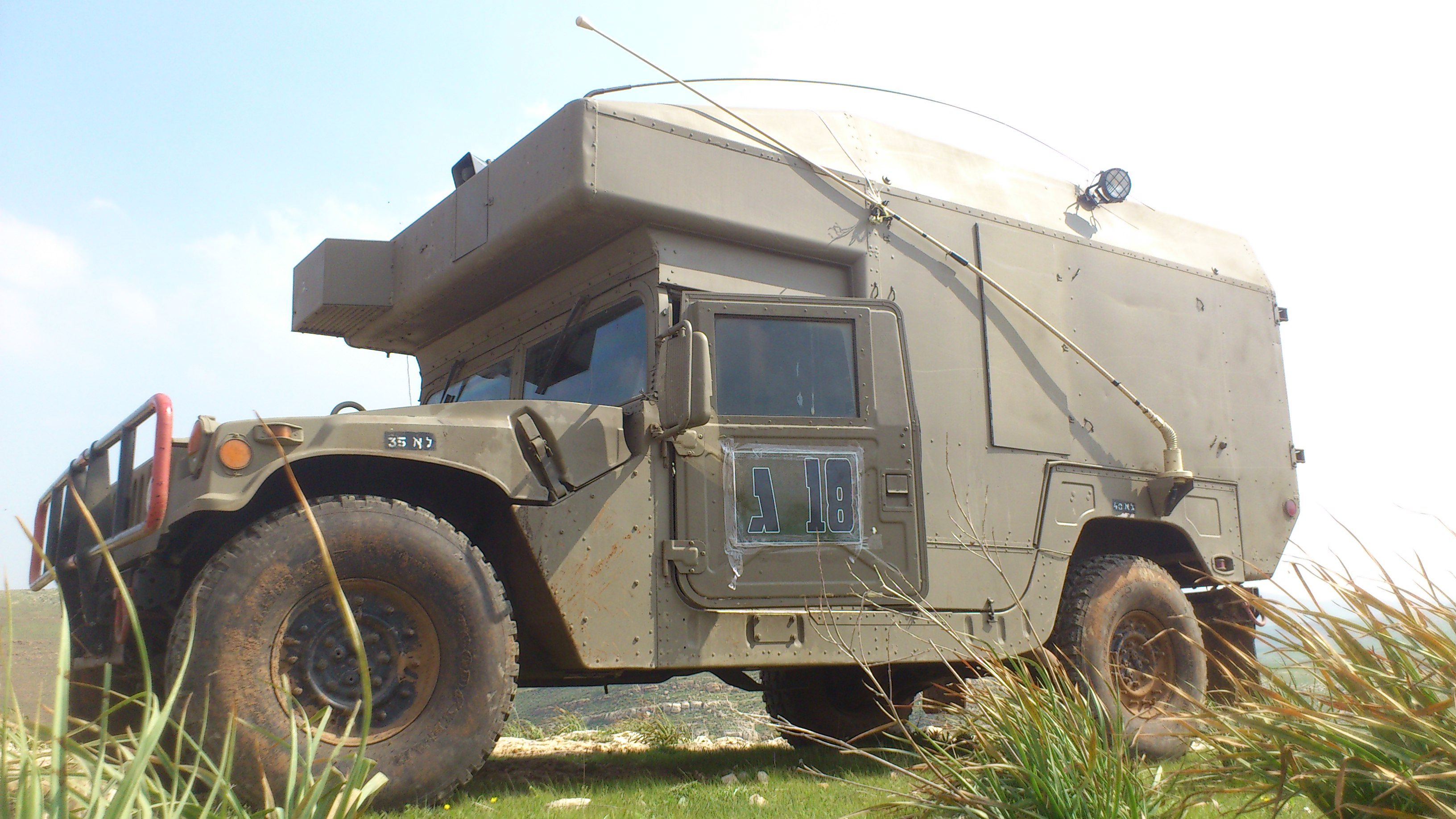 Idf hummer ambulance